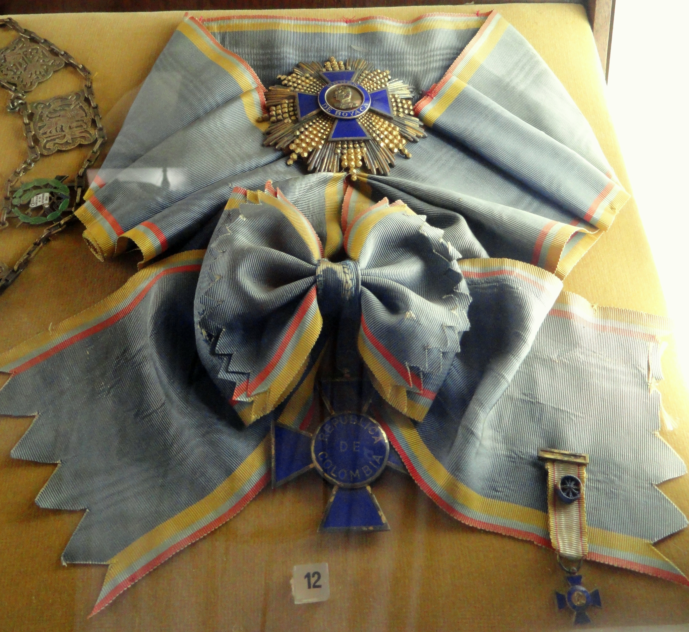 IExhibit in the Memorial JK, Brasília, Brazil.